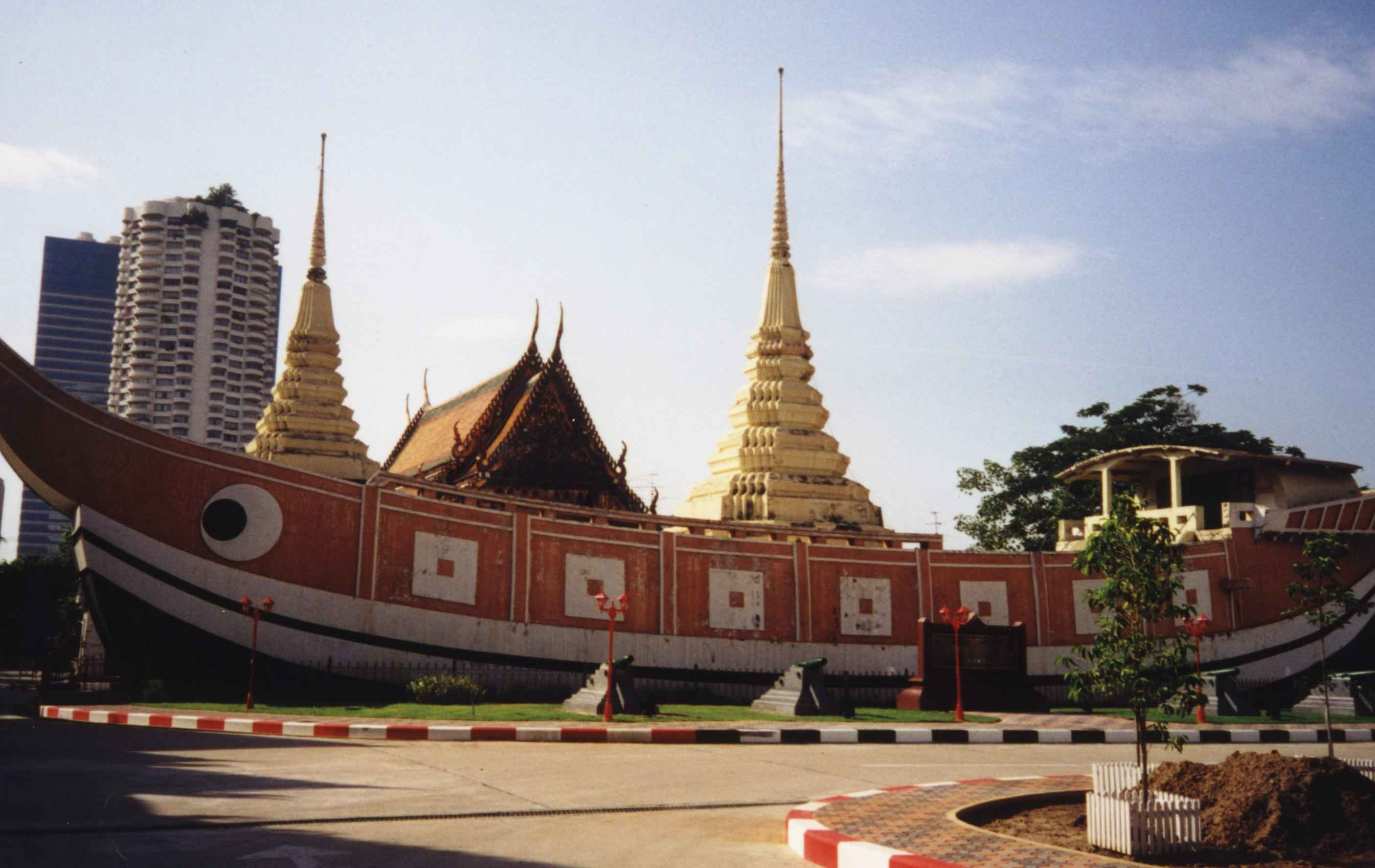 Wat Yannawa (วัดยานนาวา), Bangrak district, Bangkok, Thailand. Most notably about the temple is the stupa built on a ship-like base. Photo taken by User:Ahoerstemeier in November 2000.